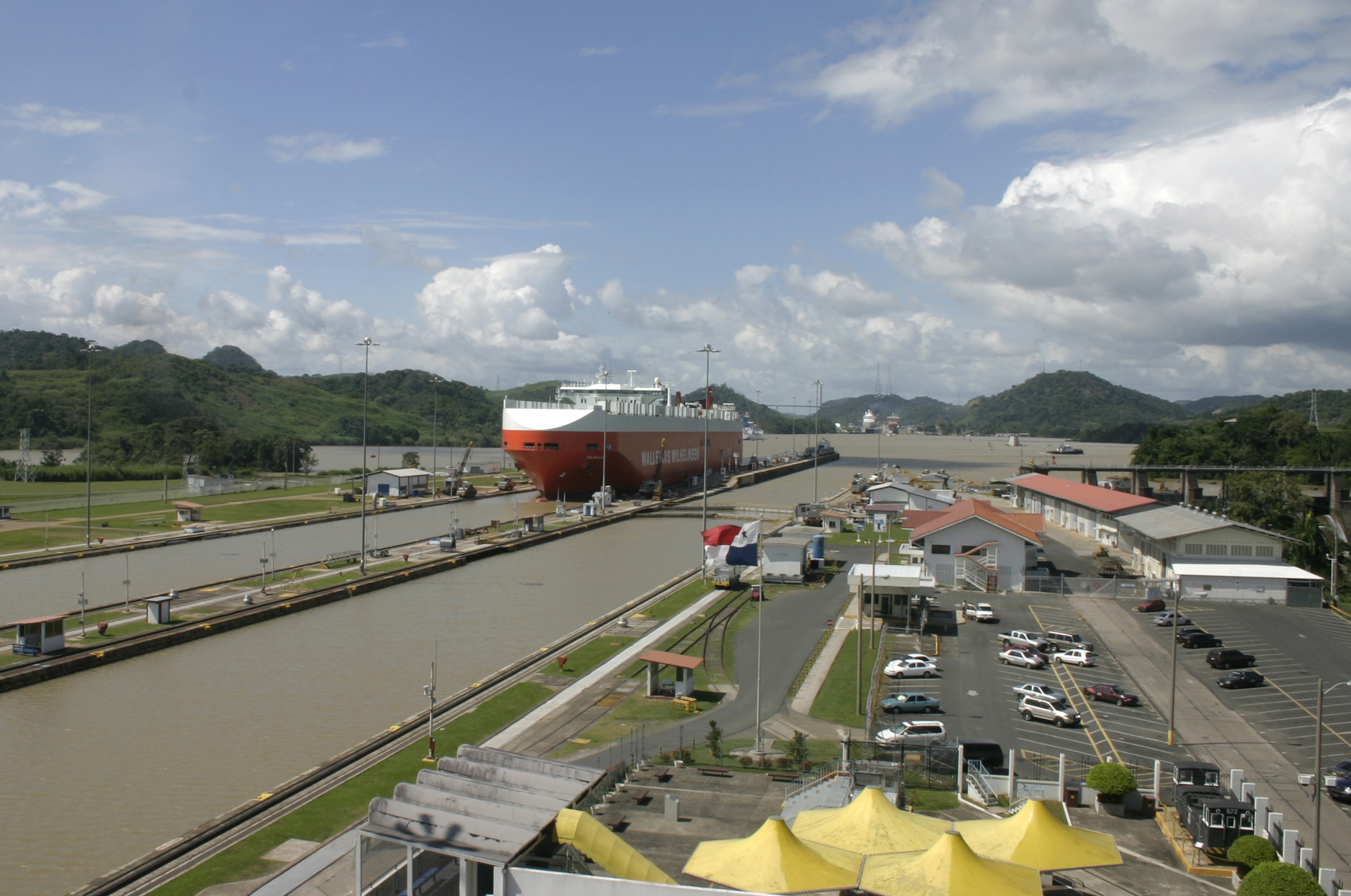 The Miraflores Locks, Panama Canal in December 2004 (In the front) Miraflores Lake (In the Middle) Pedro Miguel Locks (In the background)